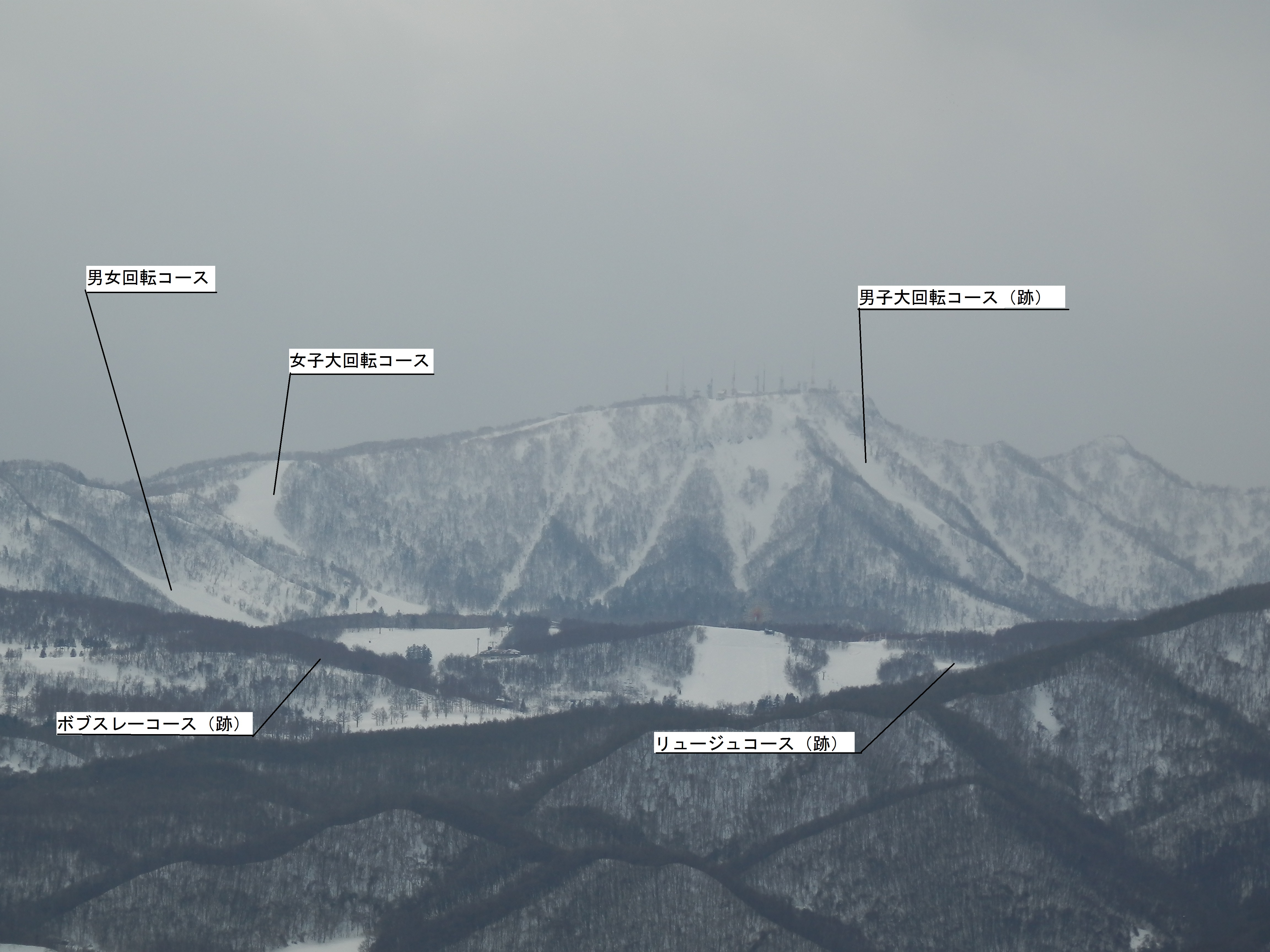 Alpine skiing venues at the Winter Olympic Games in 1972, on Mount Teine, Sapporo, Japan